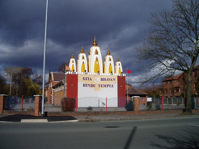 Gita Bhavan Hindu Temple The Gita Bhavan Hindu Temple stands on the junction of Wilbraham Road and Withington Road. The colourful front of the building was added when the original church was made redundant. It lies between Chorlton cum Hardy and Fallowfield. The current O.S. map of 2008 still shows the building with a cross, the symbol for a church, rather than a place of worship.